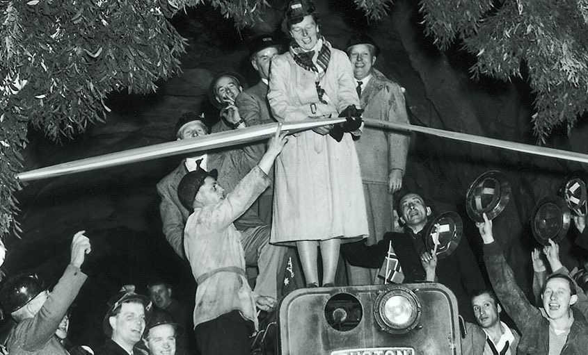 Historic photograph of Eileen Hudson, who was married to the chief engineer of the Snowy Hydro scheme in the Australian Alps, opening the Guthega Tunnel, the first component of the project.